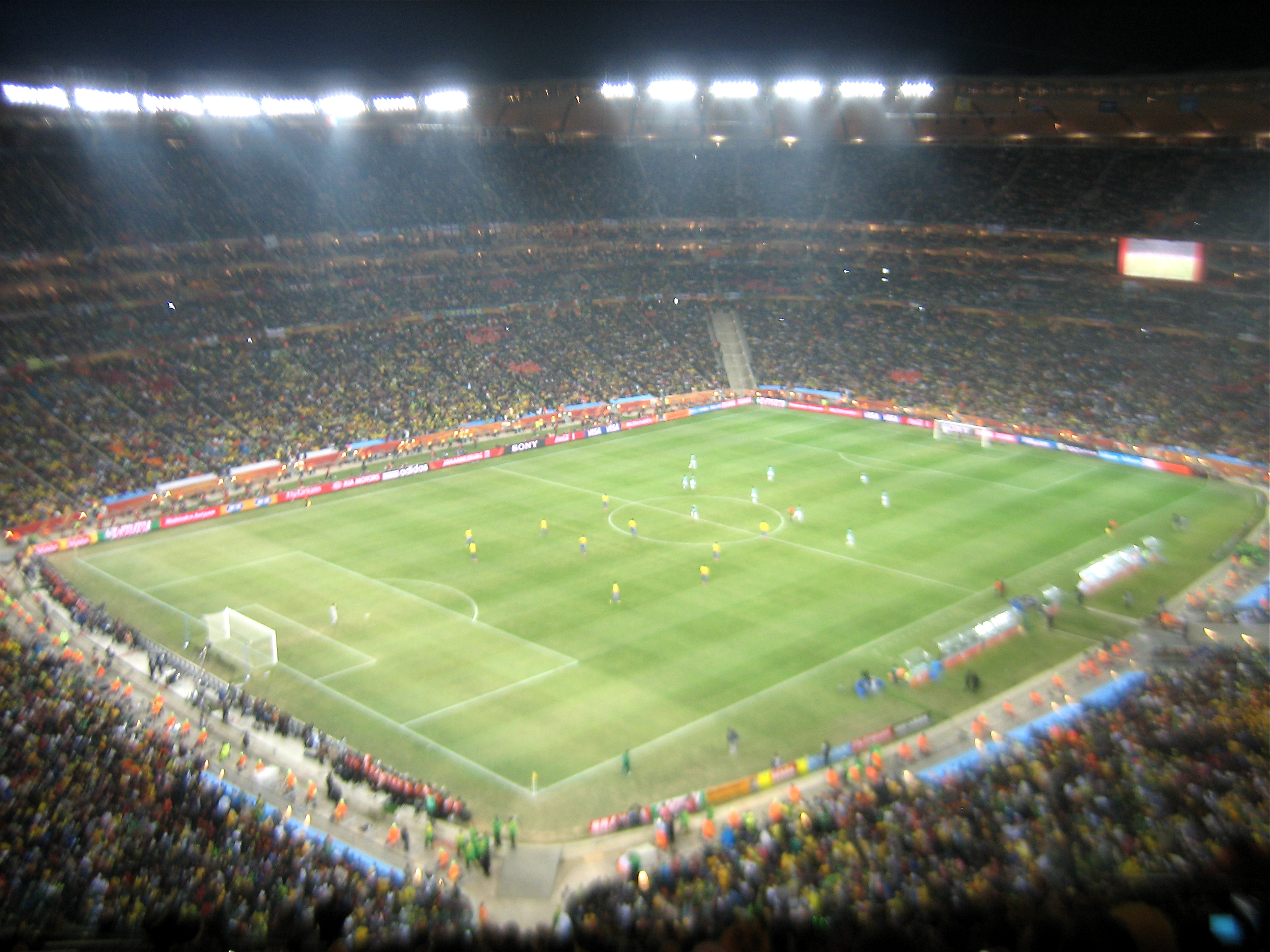 Teams during the game between Brazil and Côte d'Ivoire at FIFA World Cup 2010, 20 June 2010, Soccer City, Johannesburg